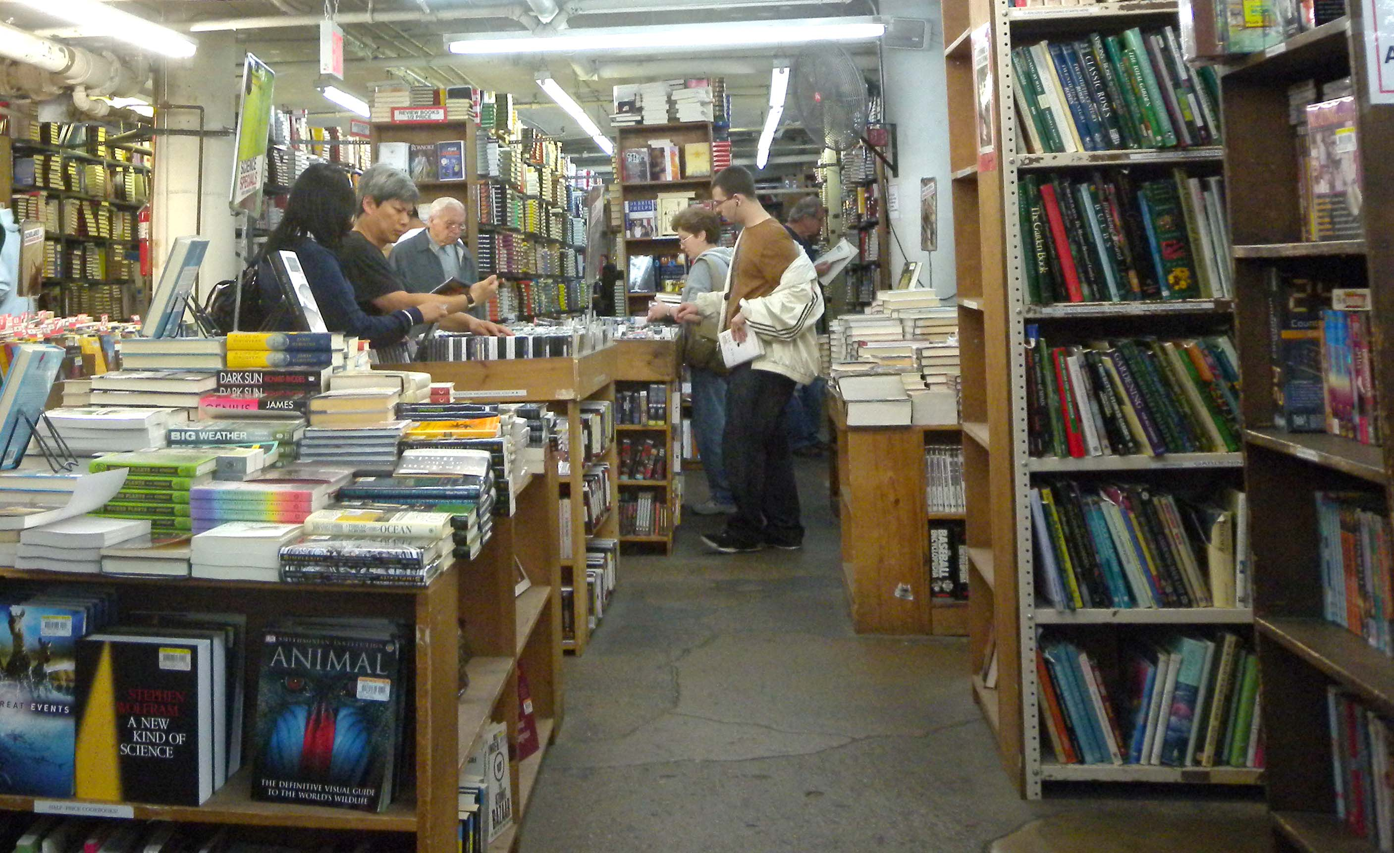 Looking east in the basement sales table area of the Strand Bookstore. See also File:Strand Book Store.jpg